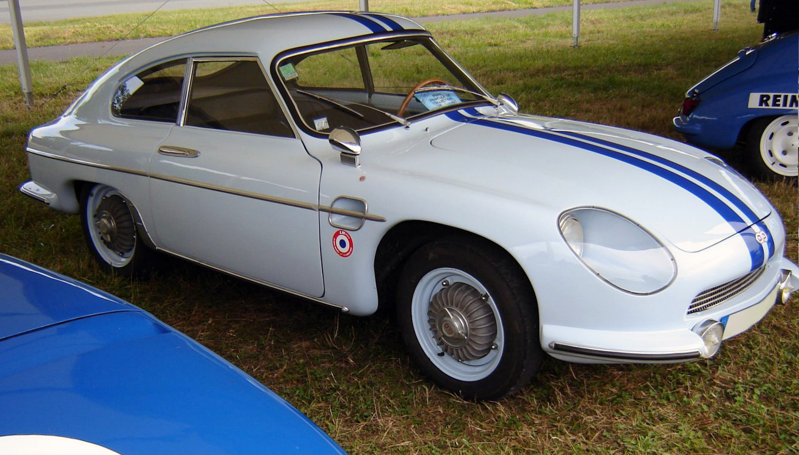 1959 DB (Deutsch-Bonnet) HBR5 at the Autodrome de Linas-Montlhéry, 2009